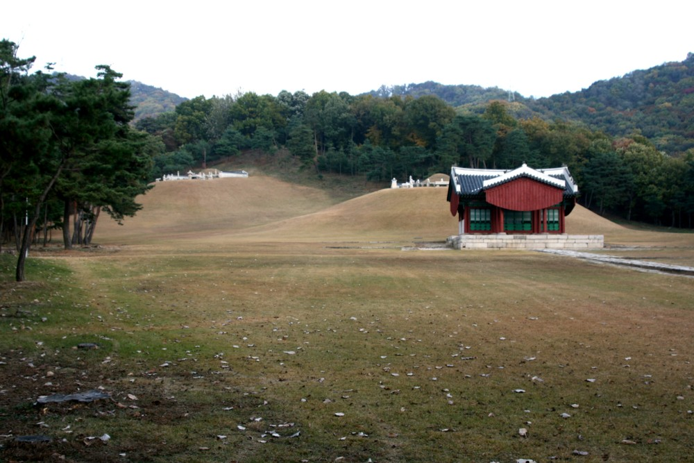 A view of the Seosamneung Tomb in the Goyang city, Gyeonggi province, South Korea